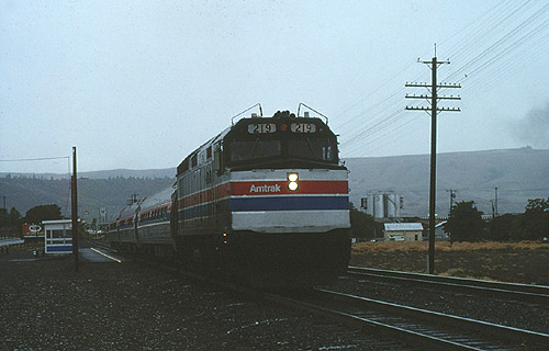 The Pioneer at The Dalles station with the former passenger shelter (Amshack), August 1977